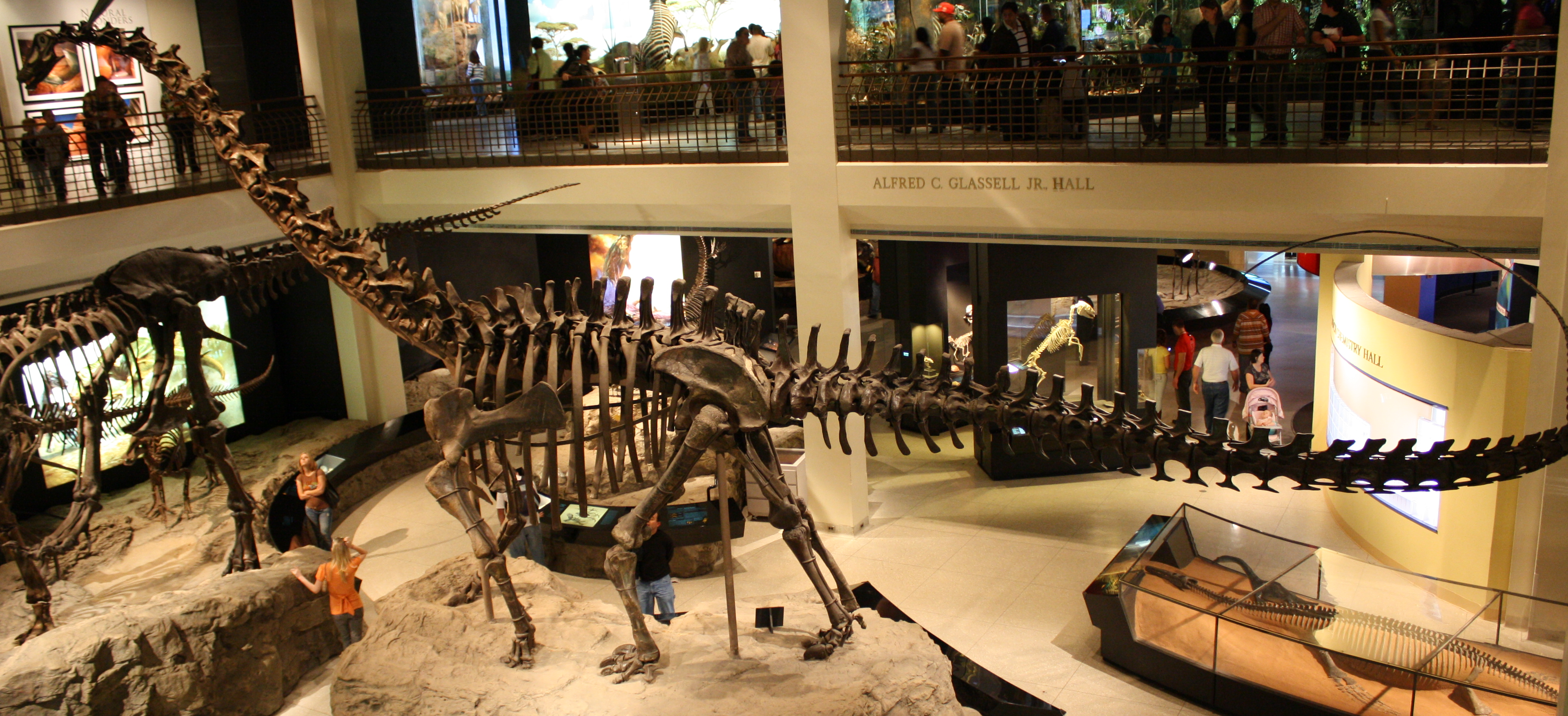 Galeamopus hayi (formerly Diplodocus) type specimen (HMNS 175, formerly CM 662) Jurassic Period 140,000,000 years old The animal was 78ft long, 12 ft high at the hips, and probably weighed 10-15 tons. Wikipedia Loves Art at the Houston Museum of Natural Science This photo of item # [1] at the Houston Museum of Natural Science was contributed under the team name "The_Wookies" as part of the Wikipedia Loves Art project in February 2009. Houston Museum of Natural Science The original photograph on Flickr was taken by andytang20—please add a comment to the original Flickr page whenever a use has been made on Wikipedia or another project. Project galleries on Flickr: this institution, this team